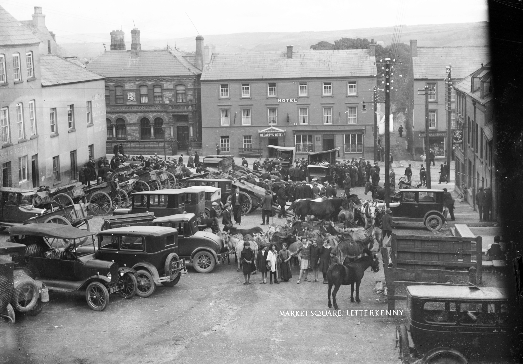 Centuries of transport methods colliding in the bustling Market Square at Letterkenny in Donegal... Date: 1928?? From Wikipedia, Donegal motor registration numbers were: IH 1 to IH 9999 (Dec 1903 - Jan 1952) NLI Ref.: EAS_1114